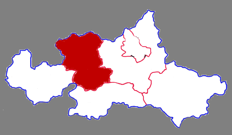 Location of Feicheng county-level city in Taian City, China